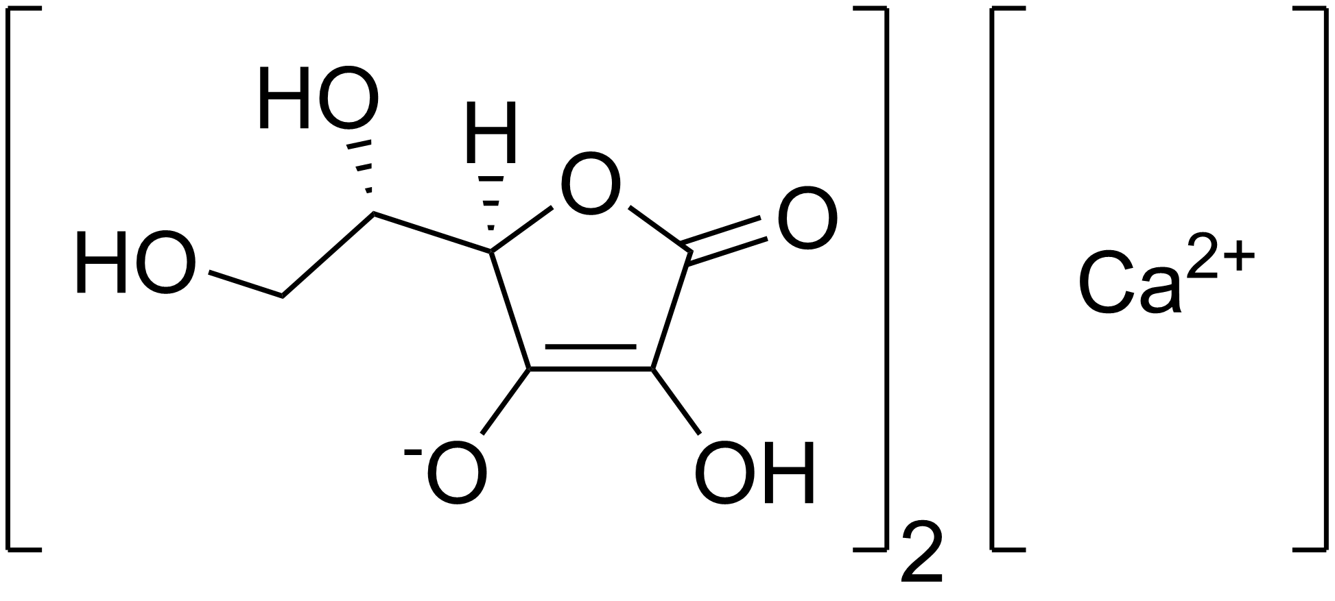 Chemical structure of calcium ascorbate (calcium diascorbate)